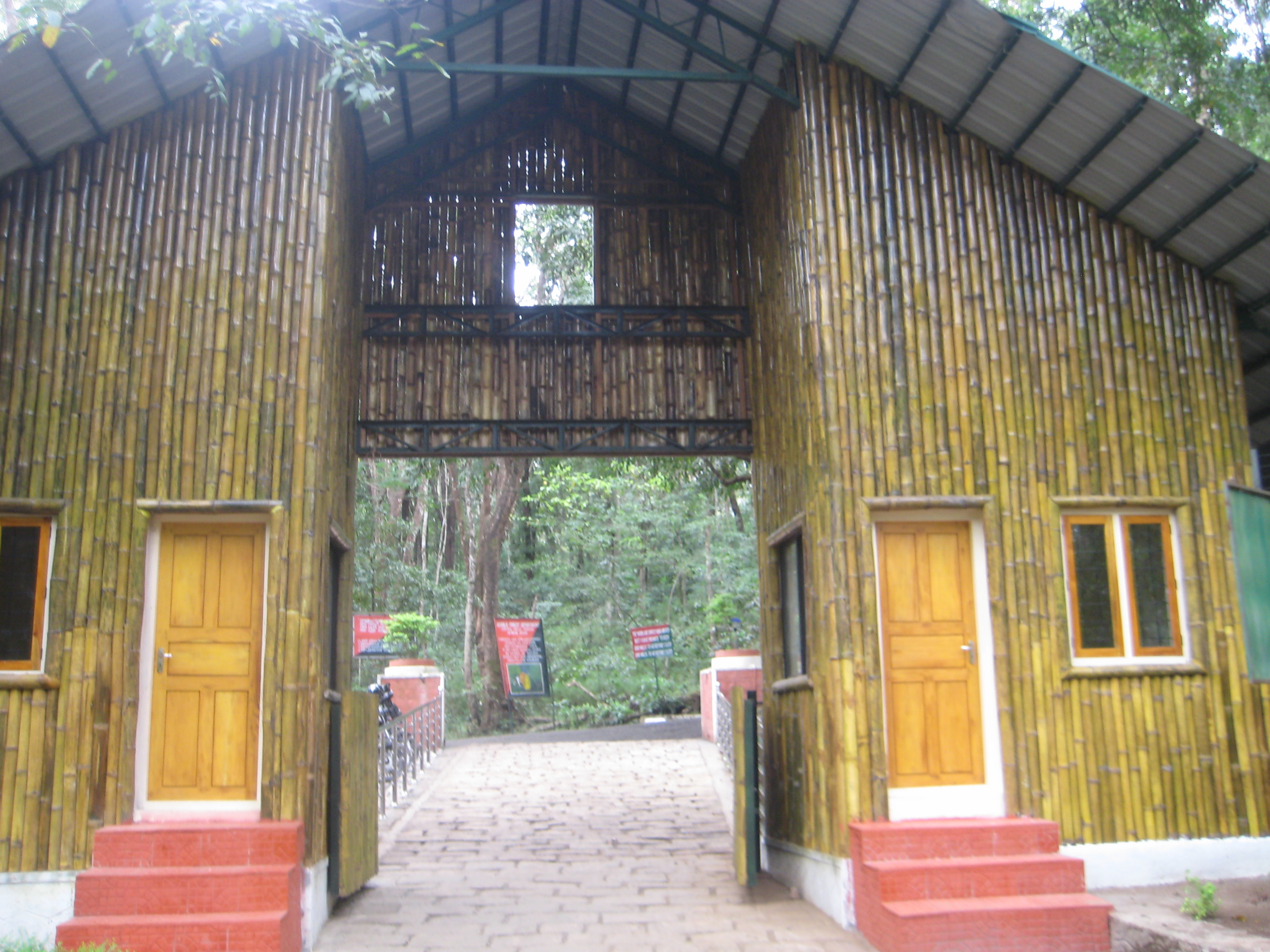 Vazhachal Main Gate, which is made by bamboo. Vazhachal, Vazhachal Waterfalls It is located on the way from Chalakudy to Valpara. 5 kms away from Athirappally Waterfalls. It is the part of Chalakudy river.